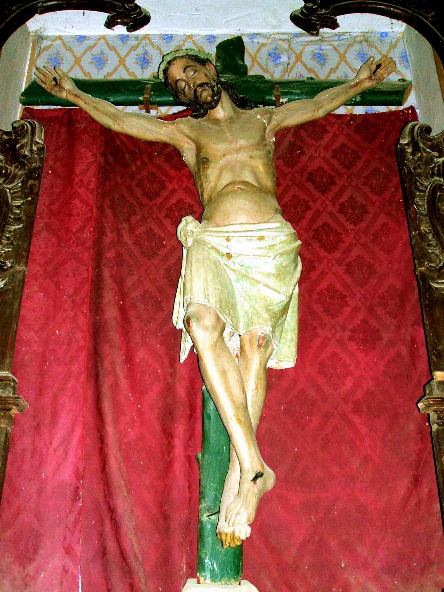 Cristo de la Salud, talla gótica del s-XIV, en la Iglesia de Nuestra Señora de Belén, en Carrión de los Condes (Palencia, Castilla y León, España)